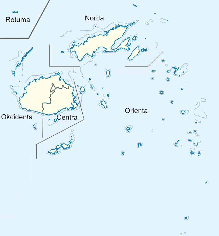 map of the divisions of Fiji, labelled in Esperanto created using Fiji_location_map.svg of NordNordWest and File:Fiji divisions named-fr.svg of Xfigpower